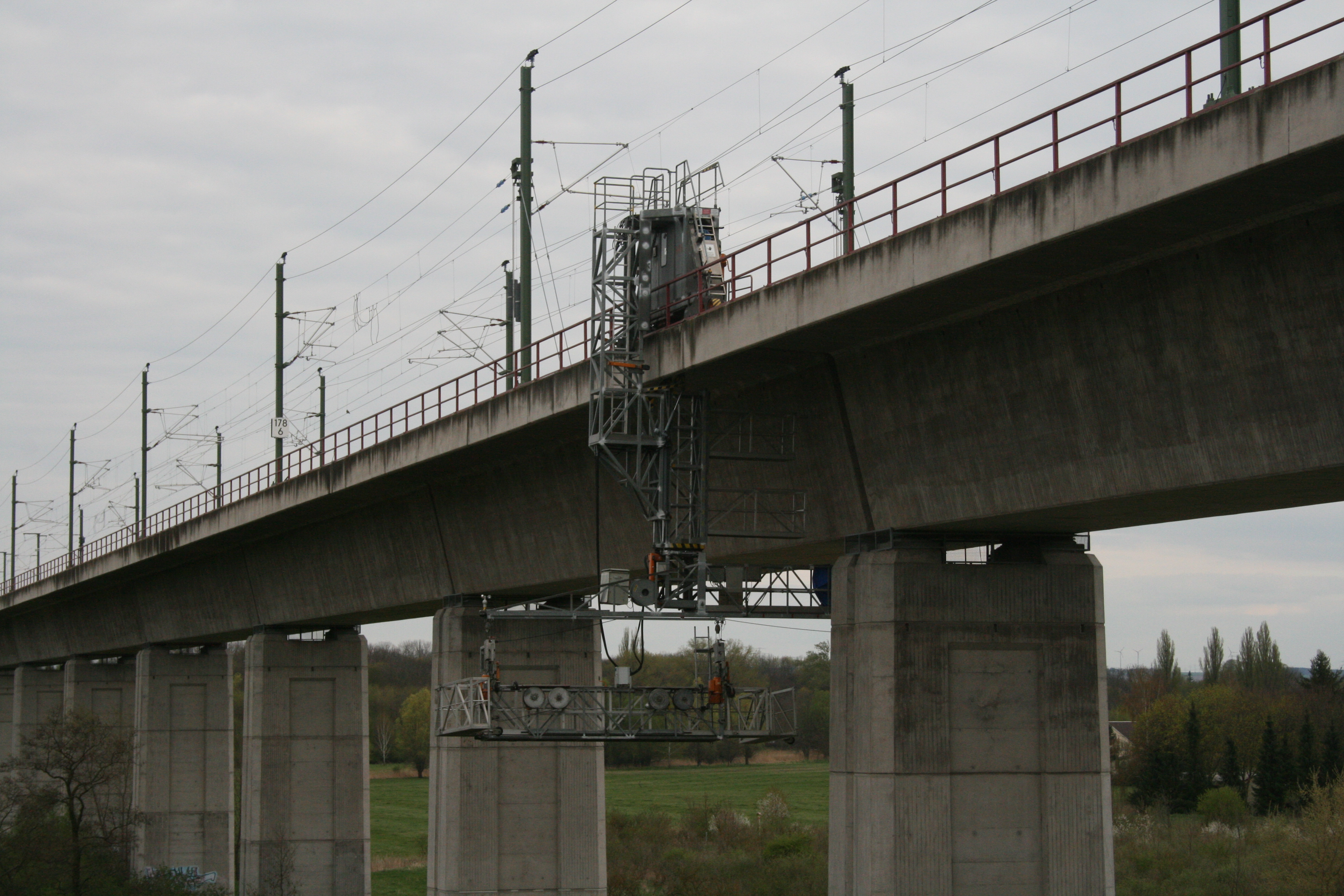 Maintainenance platform at Geratalbrücke Ichtershausen.